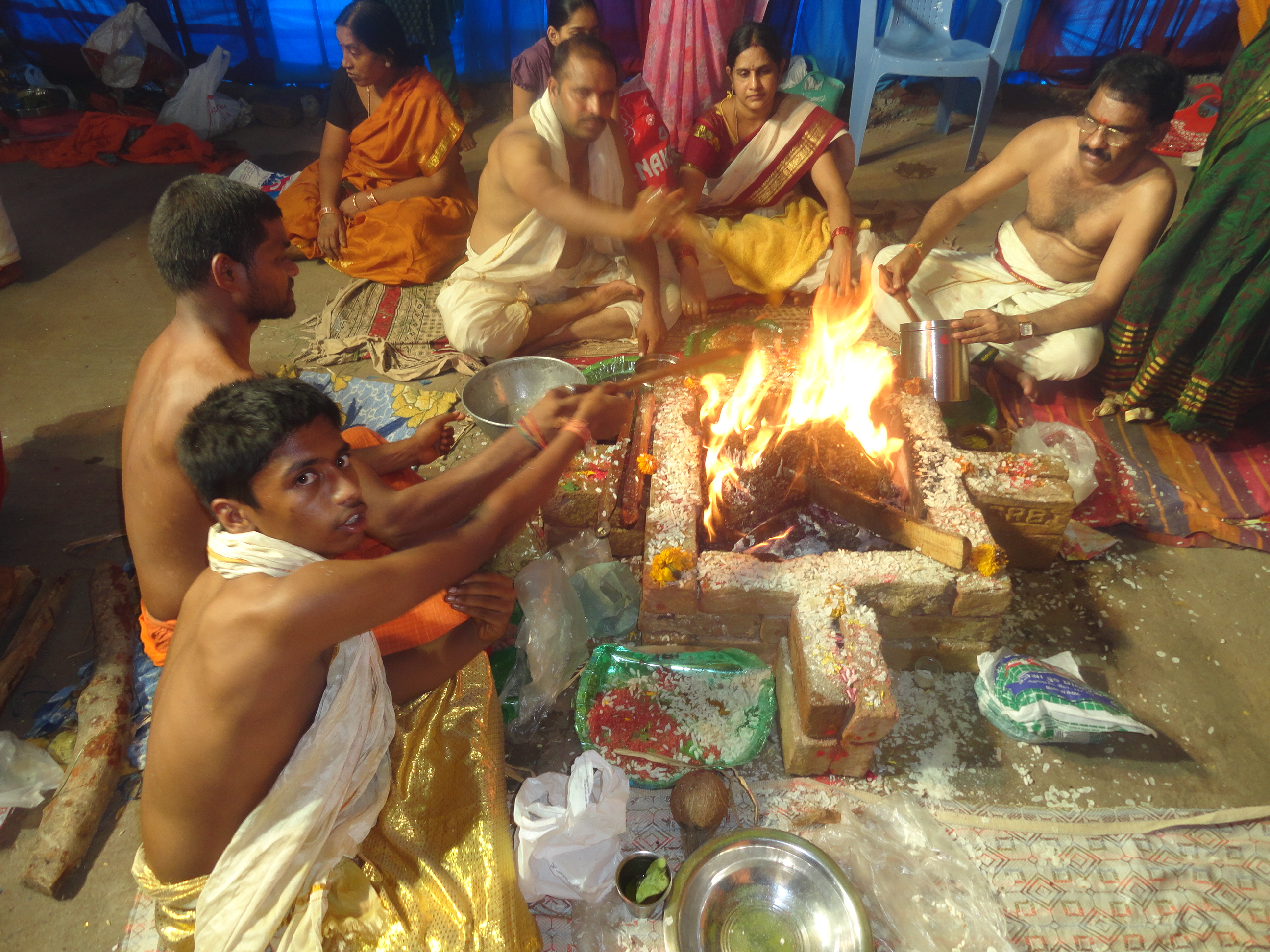 దశరా రోజున జరిగిన హోమం.